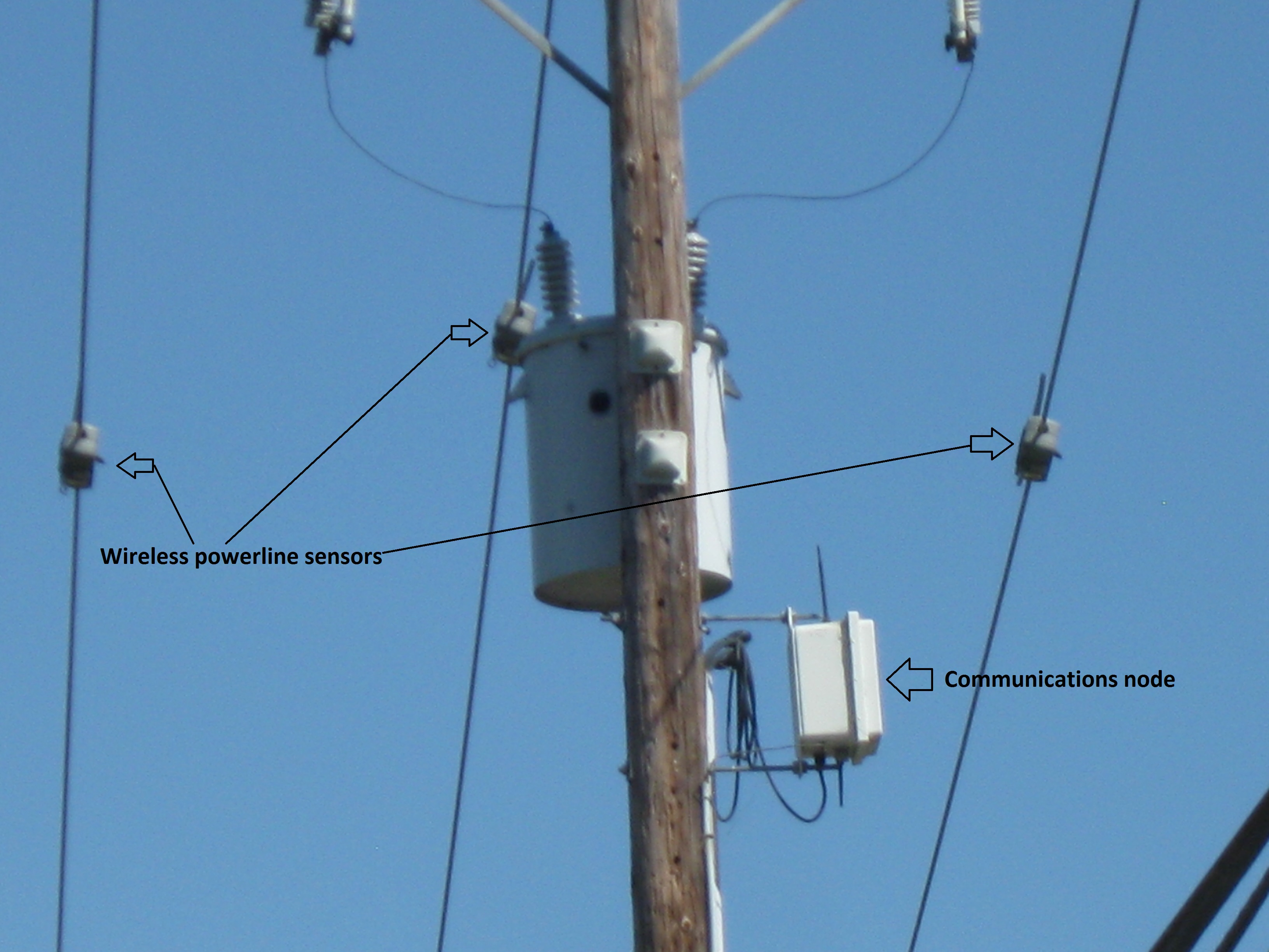 Three wireless overhead powerline sensors hanging from the phases of a 4160 Volt powerline and network node attached to a power pole; City of Palo Alto, California, USA